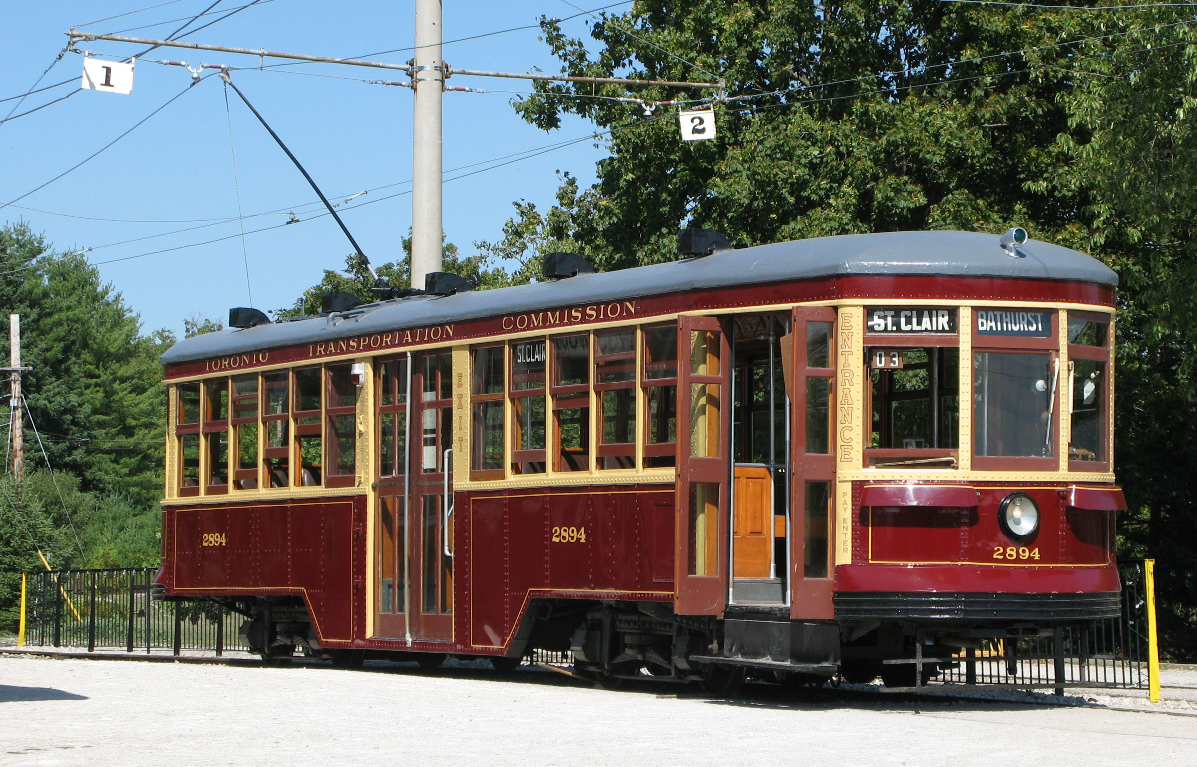 A Peter Witt streetcar in the 1921 livery of the Toronto Transit Commission, at the Halton County Radial Railway museum. The rollsigns are set as they would be if the car was operating on the Bathurst route as far as St. Clair Avenue, once its northern terminus.